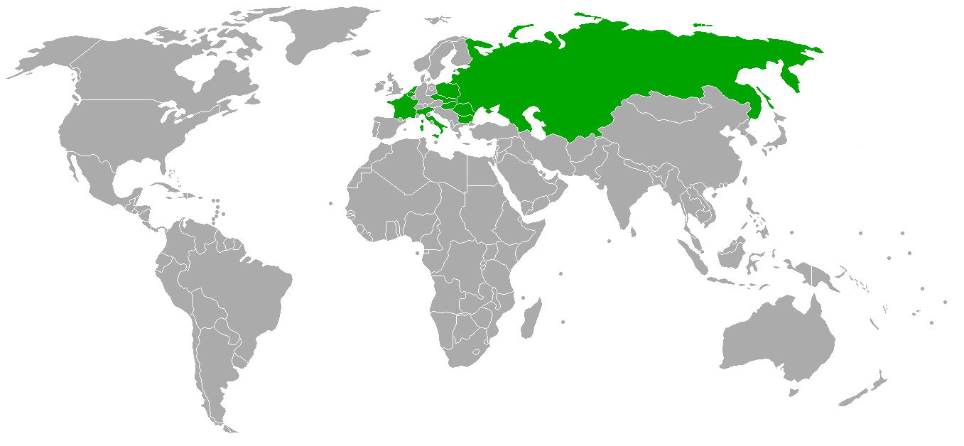 1949 FIVB Men's World Championship